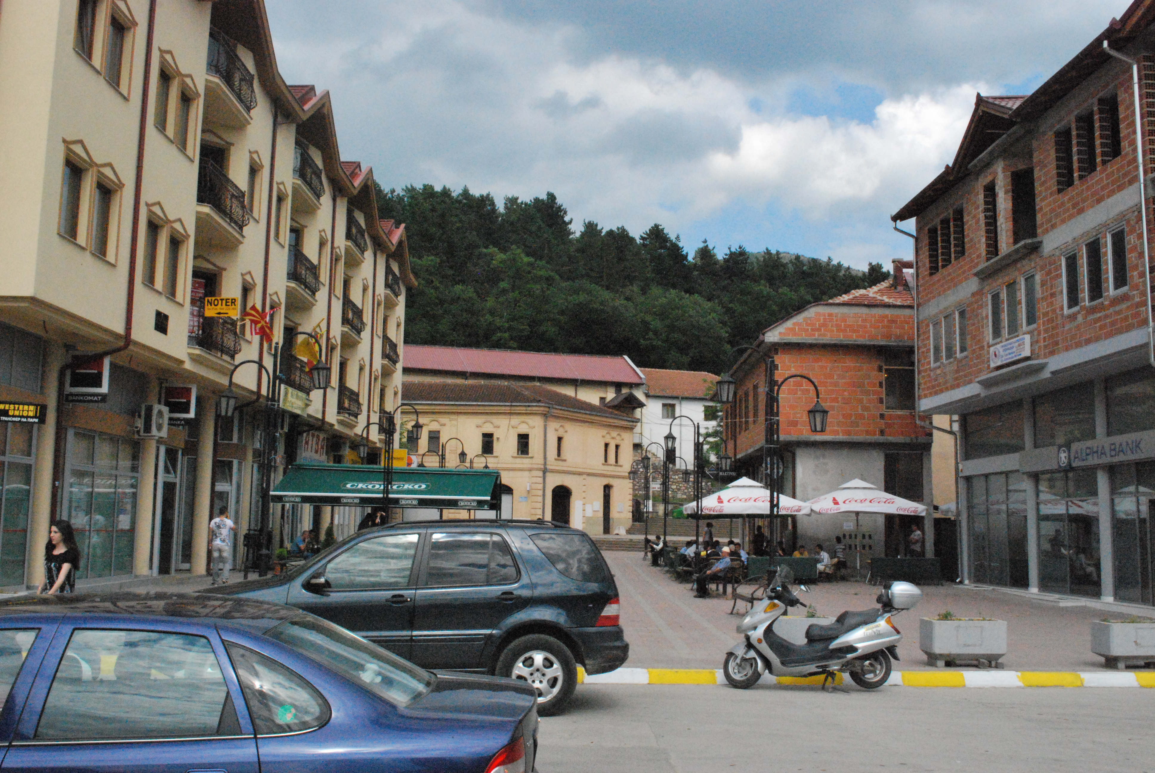 Kičevo, Macedonia